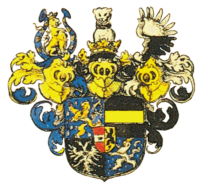 Coat of arms of the prince of Nassau Saarbrücken in 1703